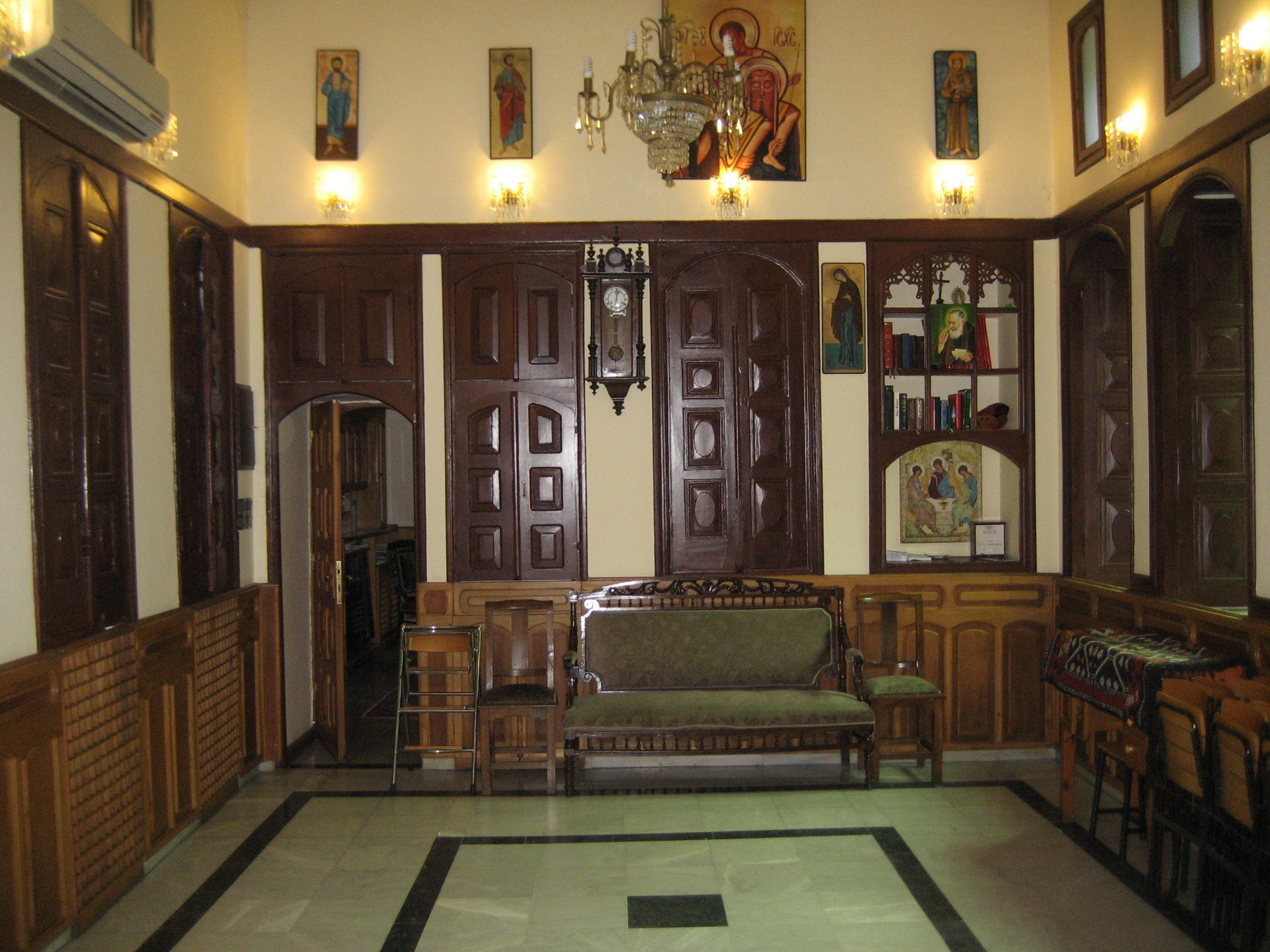 Garden of the Catholic Church of Antakya (Antioch), Hatay province, Turkey. The church is dedicated to the Apostles Peter and Paul.